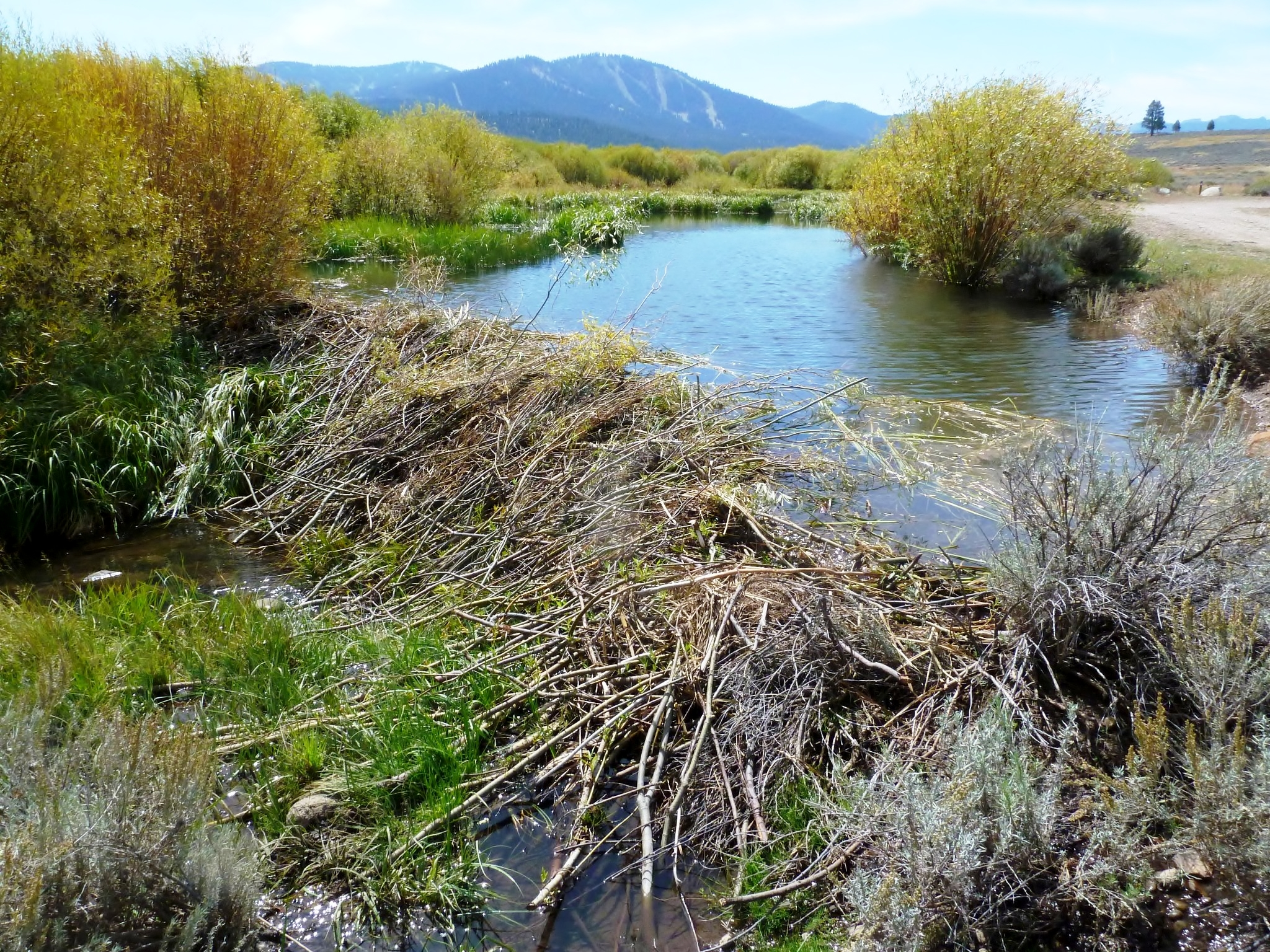 Beaver dam on Martis Creek just above Martis Reservoir in autumn.